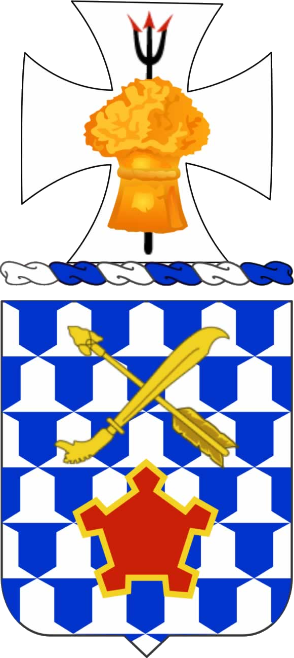 016th Infantry Regiment Coat of Arms